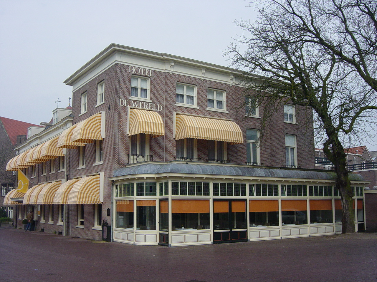 Hotel De Wereld, Wageningen, The Nederlands